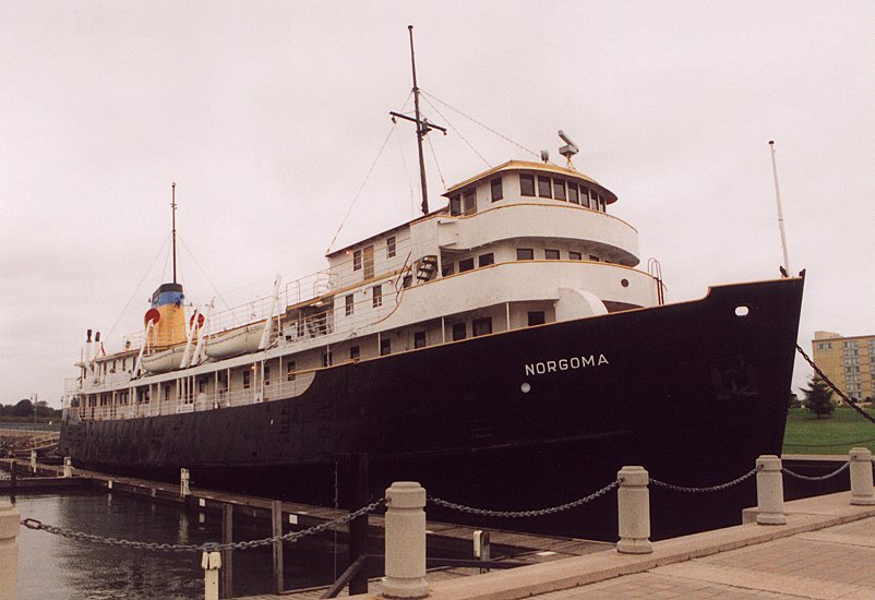 A Canadian Great Lakes Ferry.